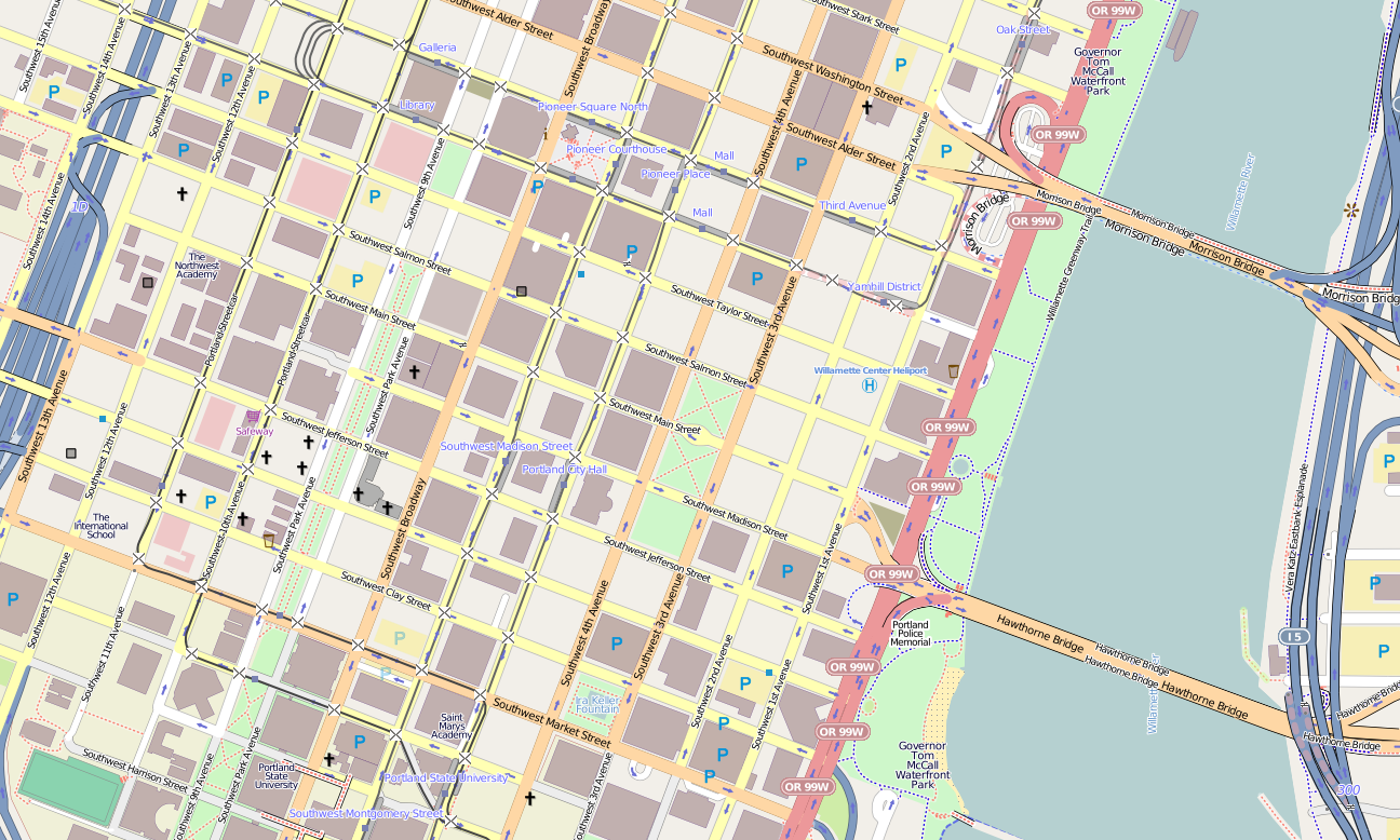 Street map of downtown Portland, Oregon, including Pioneer Courthouse Square and the Plaza Blocks, where the Occupy Portland rally took place in October 2011